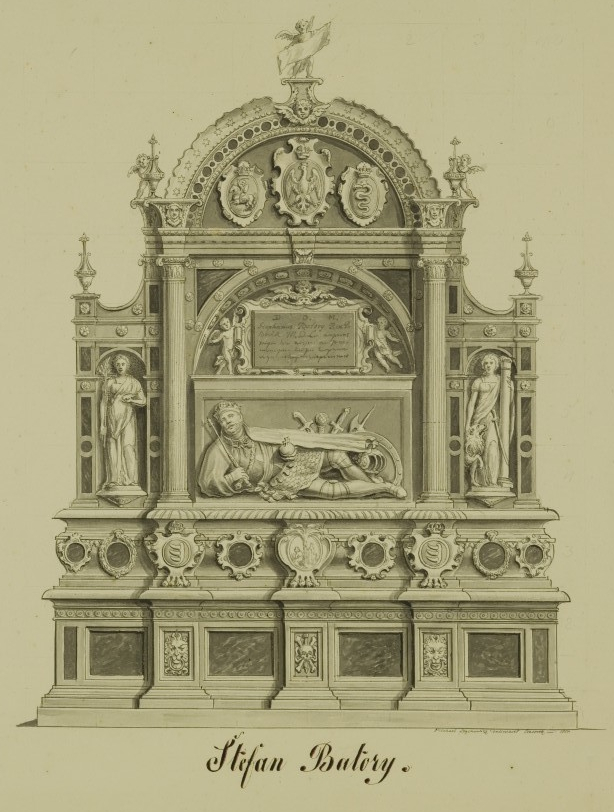 Church monument to Stefan Batory, drawn by Michał Stachowicz in 1817 (Biblioteka Narodowa, R.4406).